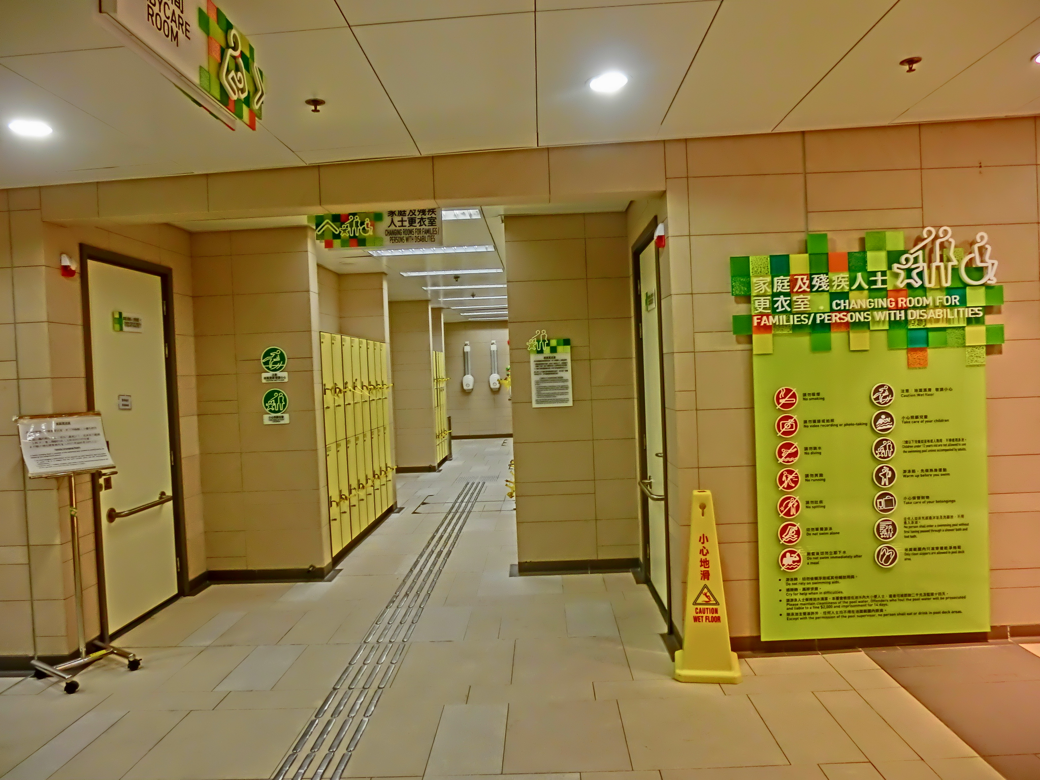 觀塘 (2013年版)觀塘游泳池, Kwun Tong Swimming Pool, Kwun Tong, Hong Kong